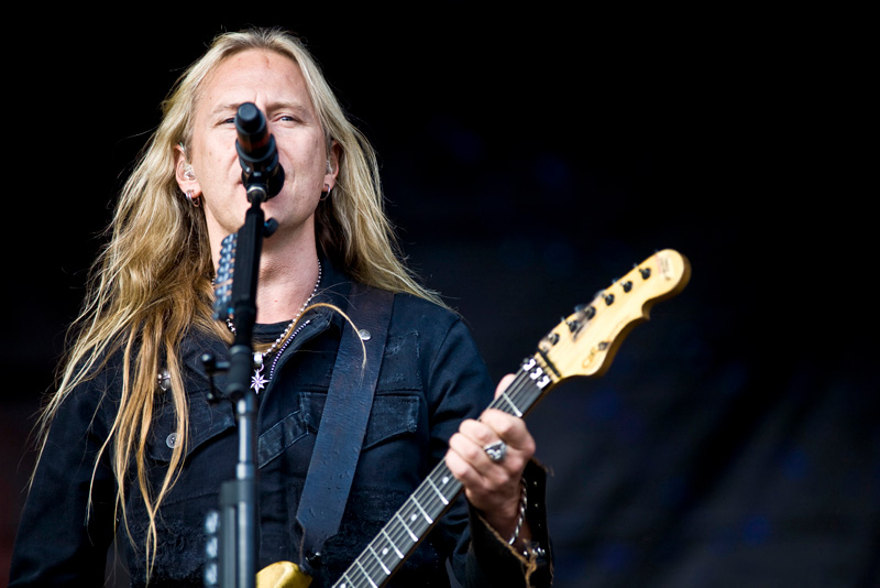 Jerry Cantrell from Alice in Chains @ Sonisphere UK 2009 Photo by Marcela Faé